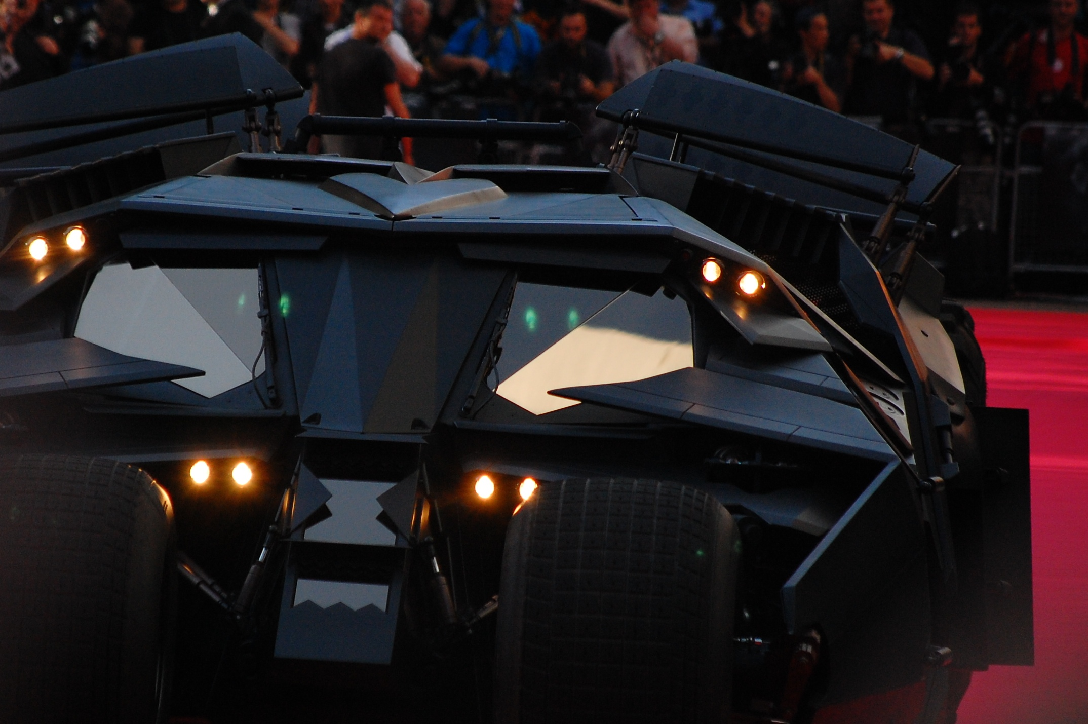 Uploaded from flickr, Creative Commons 2.0 Generic License was used when uploaded by orginal flickr user "Cristiano Betta".